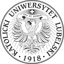 Coat of Arms of the Catholic University of Lublin